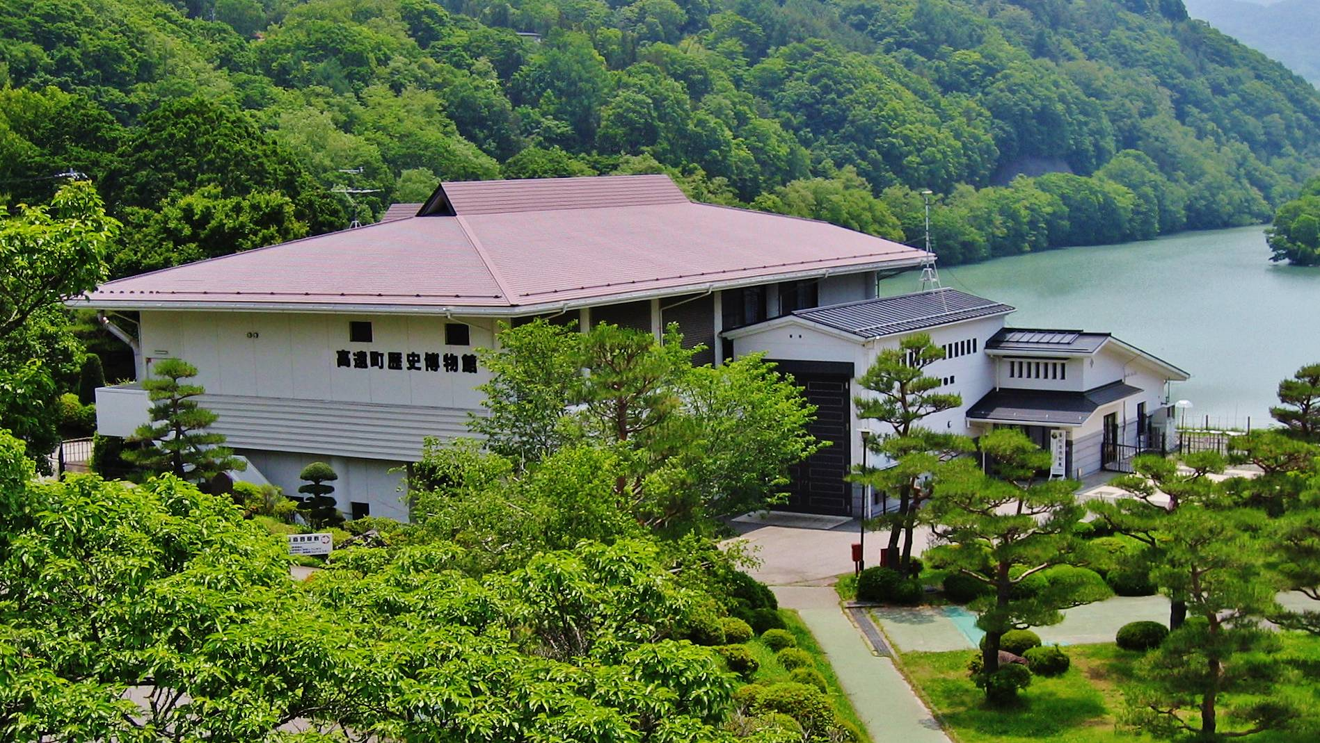 Municipal Takatomachi Historical Museum.